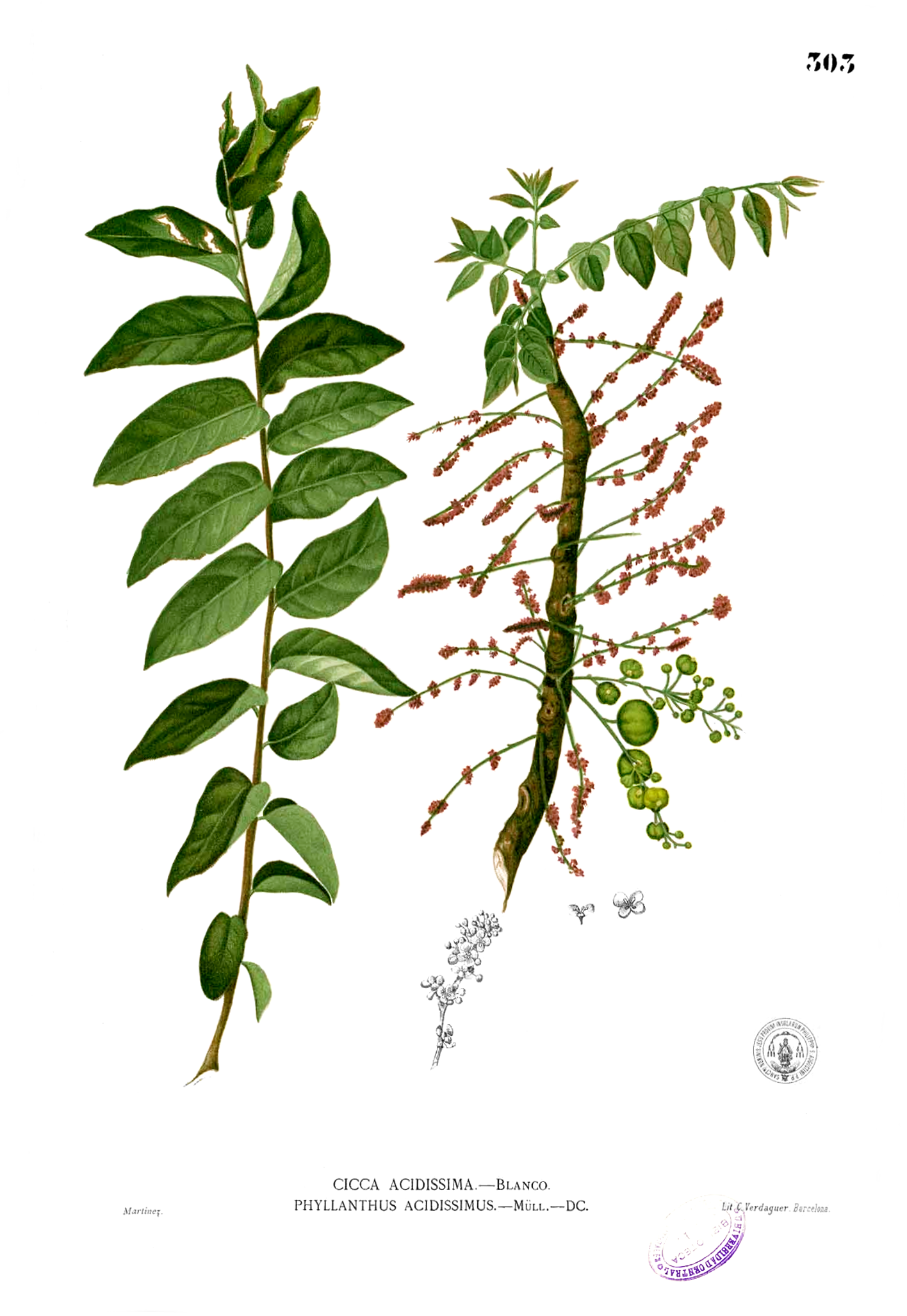 Plate from book